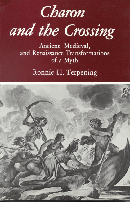 Charon, the underworld ferryman